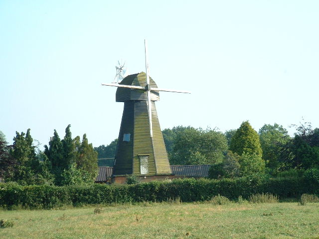 Photograph of West Kingsdown windmill